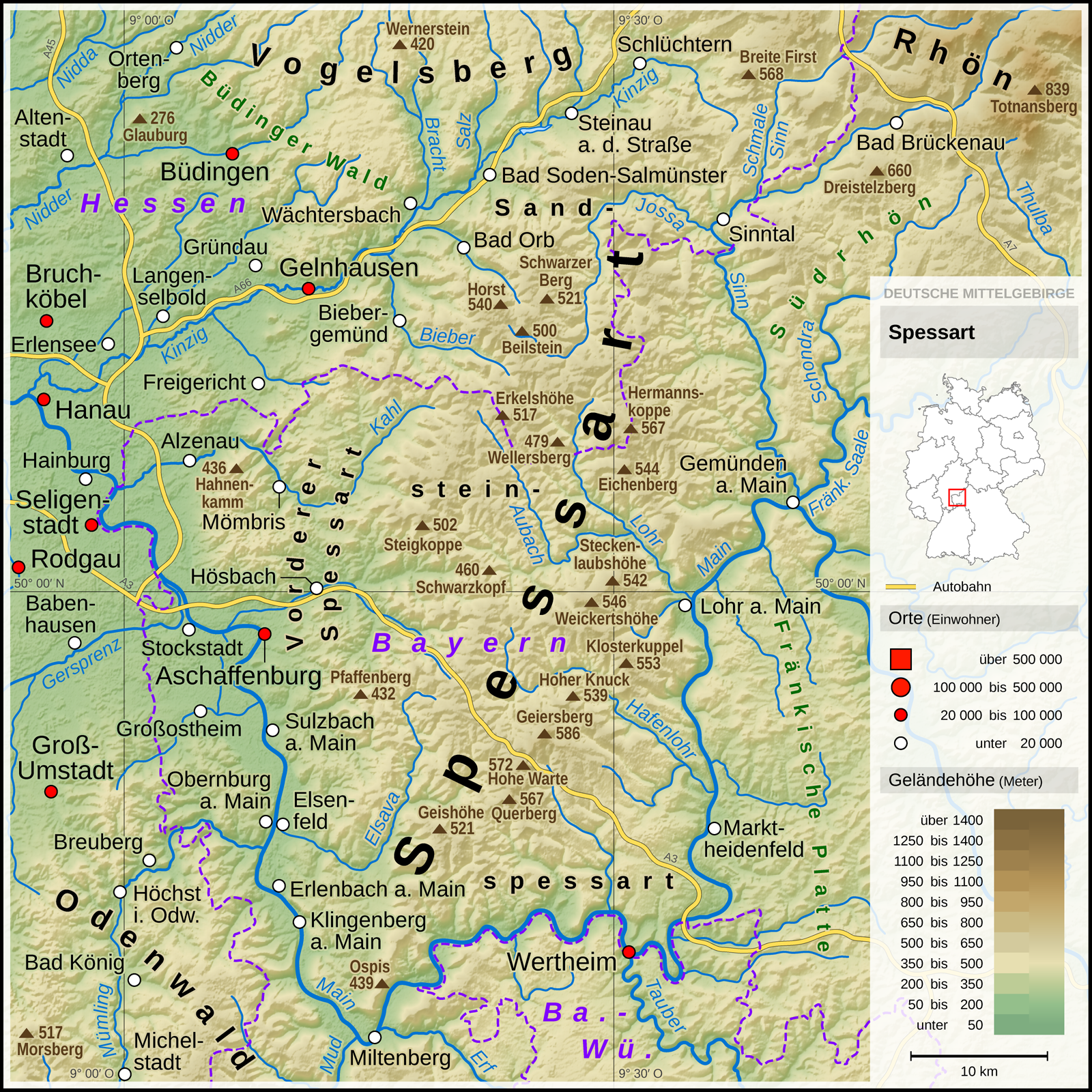 Topographic map of the Spessart